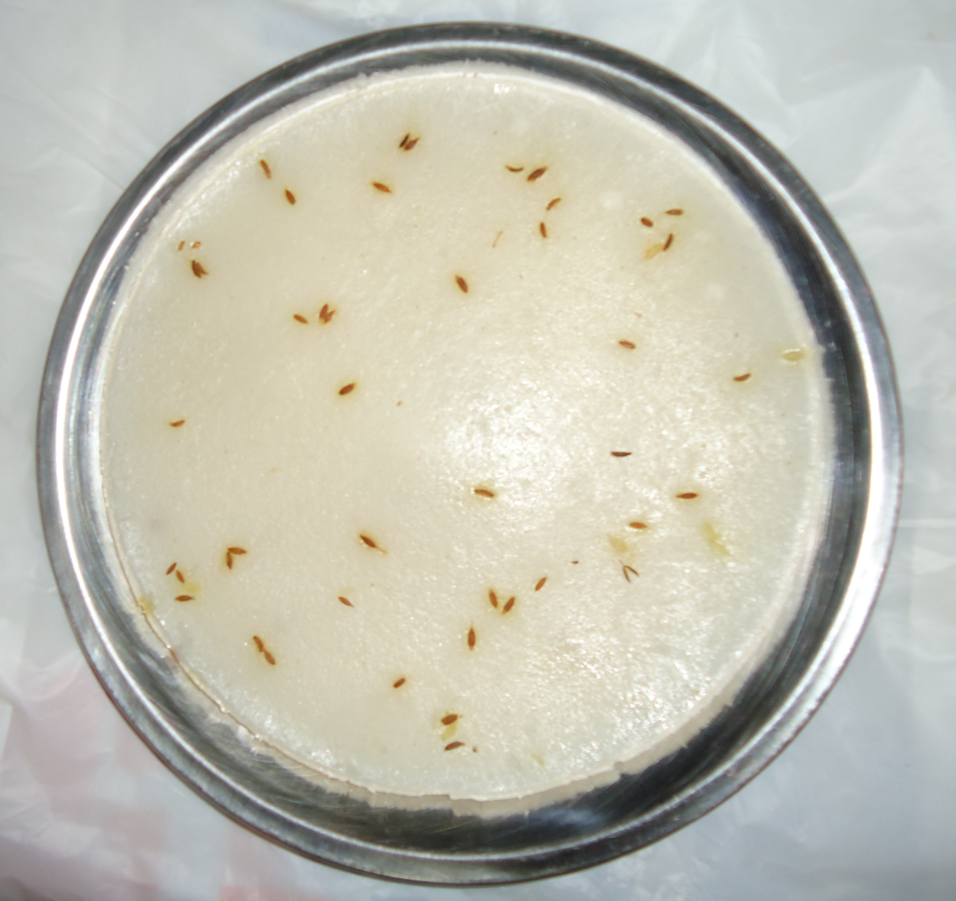 Kinnathappam is a very popular traditional sweet cake widely used in North Malabar.